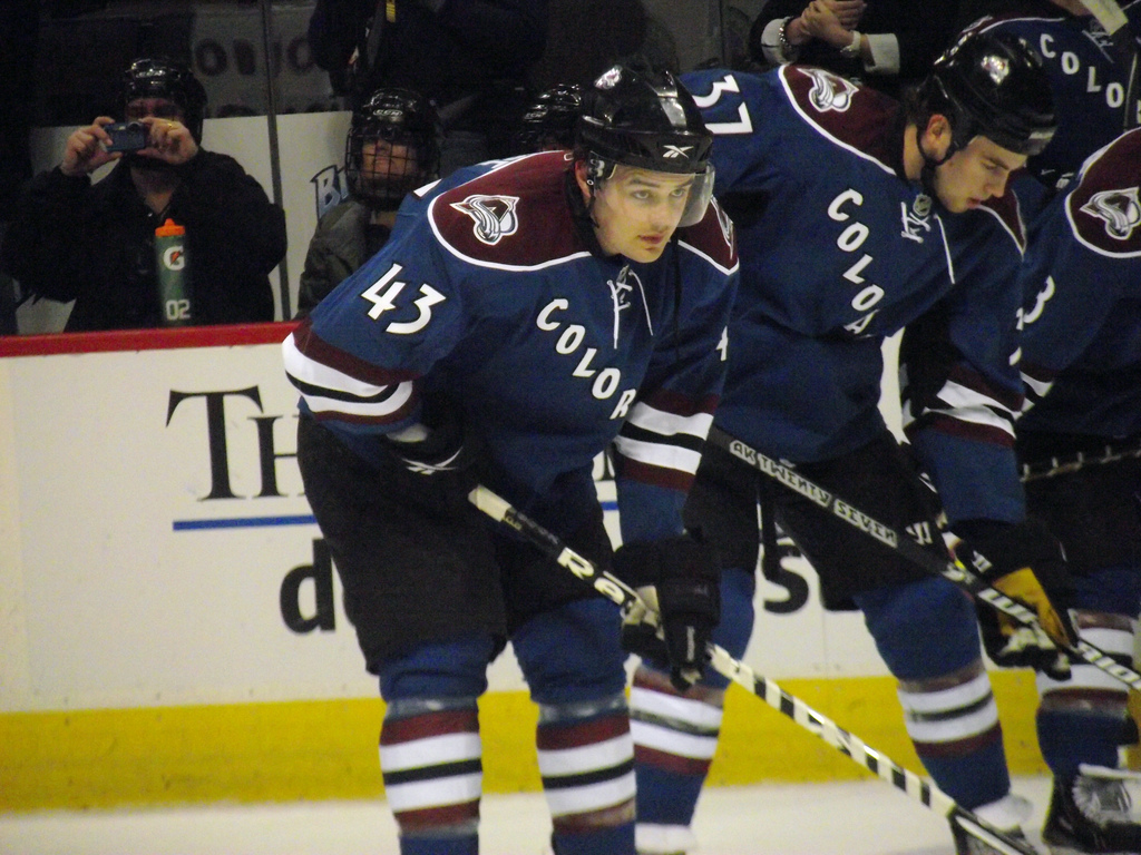 Cameron Gaunce warming up prior to an NHL game of the Colorado Avalanche.